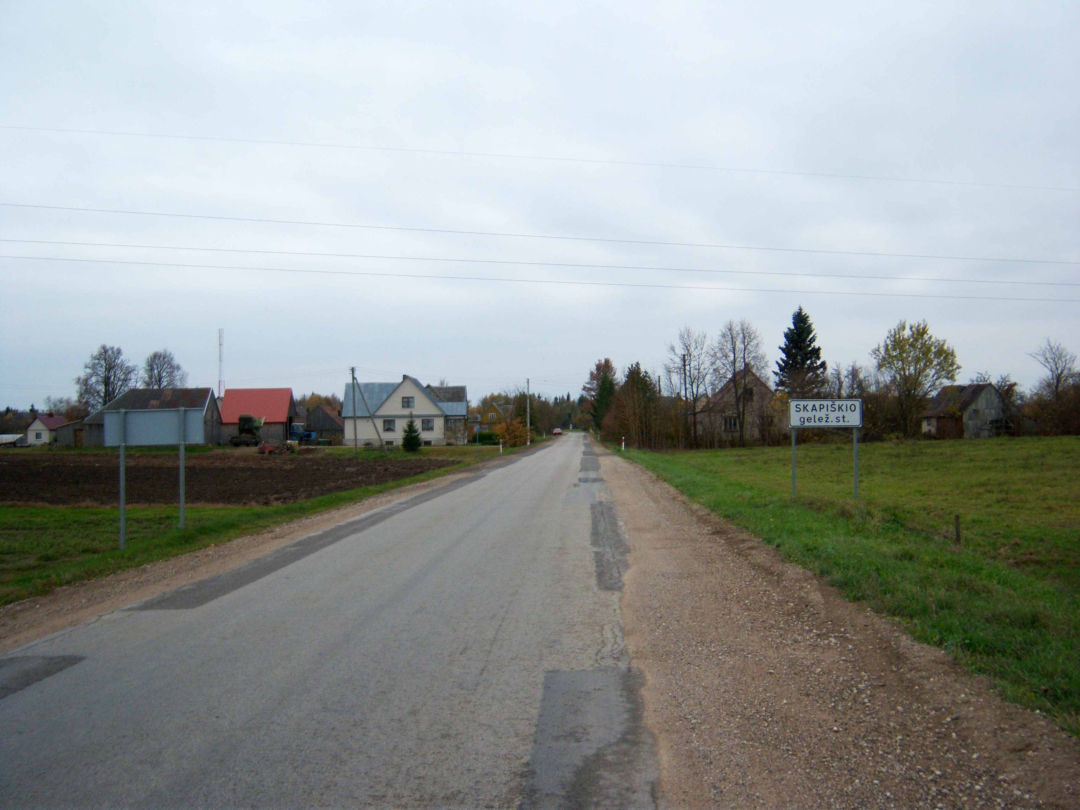 Skapiškio GS, Kupiškis District, Lithuania